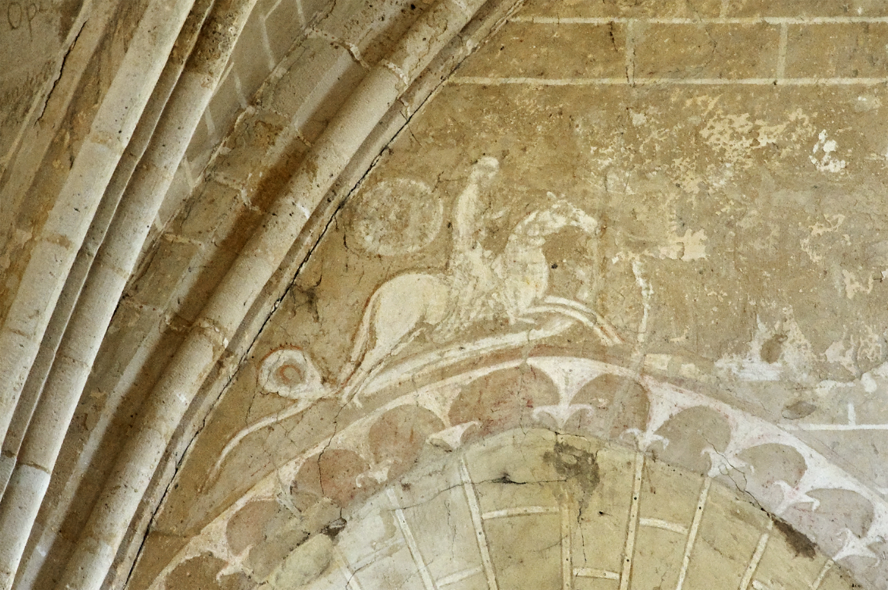 Saint George slaying the Dragon, freco in the chapel of the former Knights Templar commandery in Coulommiers, Seine-et-Marne, France; early 13th century.